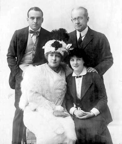 Photograph of the principal cast of The New Henrietta Douglas Fairbanks, William Henry Crane, Amelia Bingham, Patricia Collinge